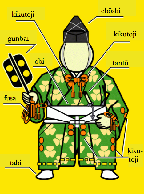 This is a roman letter translation of the original GDFL image uploaded by User:Toto Tarou According to a note for the original Japanese png file: The color of the depicted fusa (tassel) is for a sandanme gyōji, however sandanme gyōji wear zōri and do not wear a dagger. (行司の服装 房の色は三役格だが、実際の三役格行司は草履を履き帯刀しない)